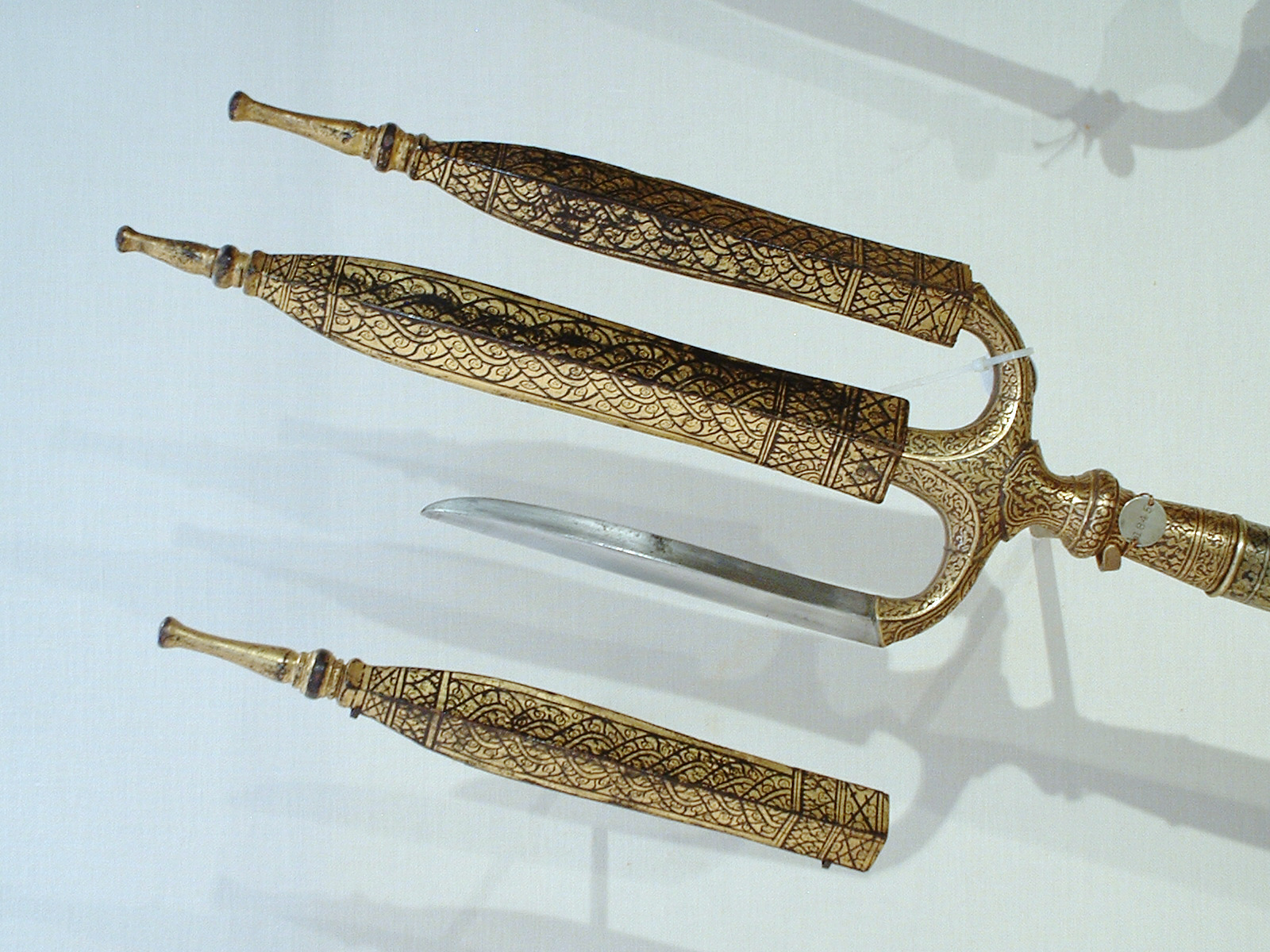 Trident, Thai, 18th century, Royal Armouries, Leeds Museum legend reads: This group of spears has examples of very fine Thai decoration, the butts and ferrules overlaid with silver gilt, the heads chiselled and gilt. Each individual blade was provided with a lacquered scabbard. Photographed by me (Gaius Cornelius), at the Royal Armoury, Leeds 08-Jun-06.